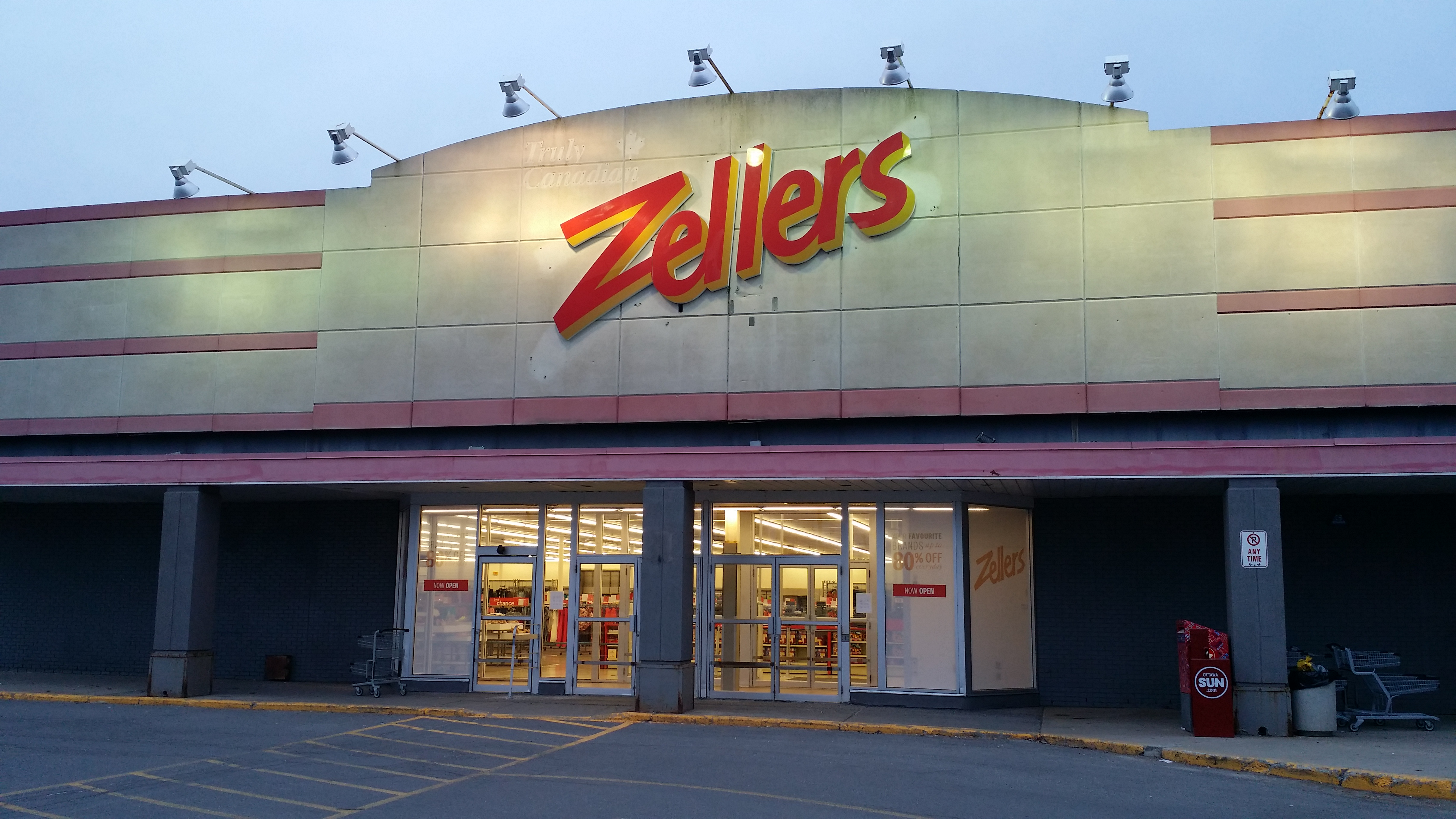 The store front of a Zellers which was reopened in Bells Corners part of Nepan in Ottawa. The new Zellers sign in the foreground with the shadows left behind of the previous Zellers, including the Truly Canadian and the Maple Leaf, behind it.